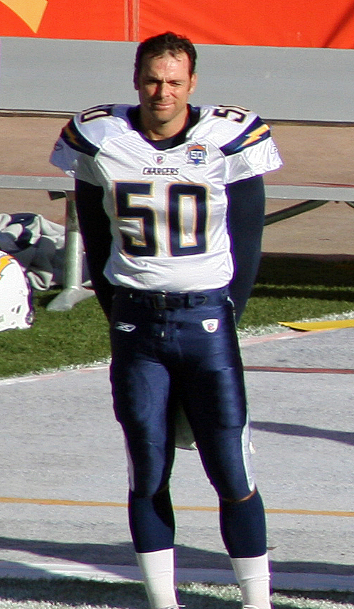 David Binn, a player with the San Diego Chargers American football team.